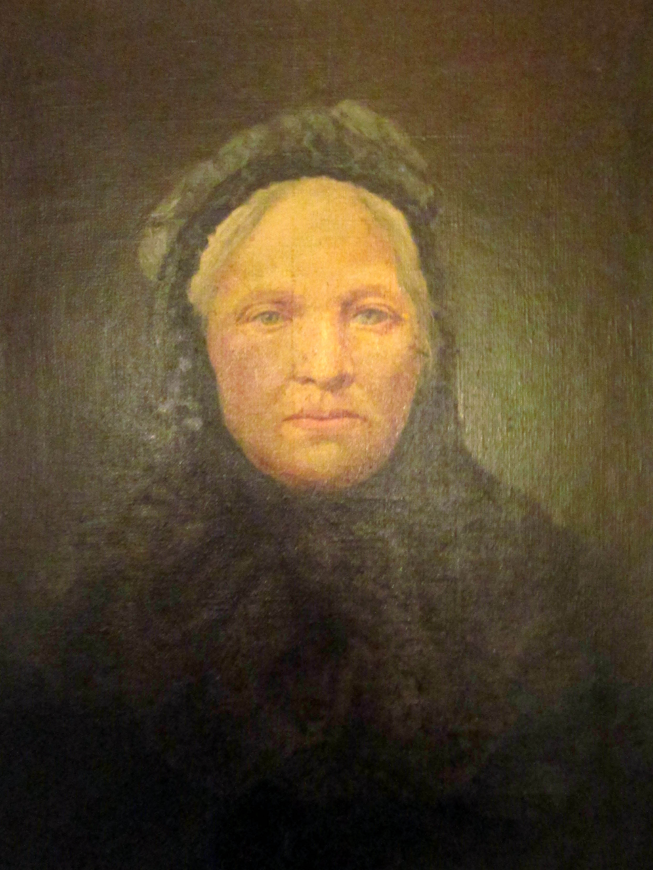 Katarzyna Rożniecka około 1870 - 1880 r.